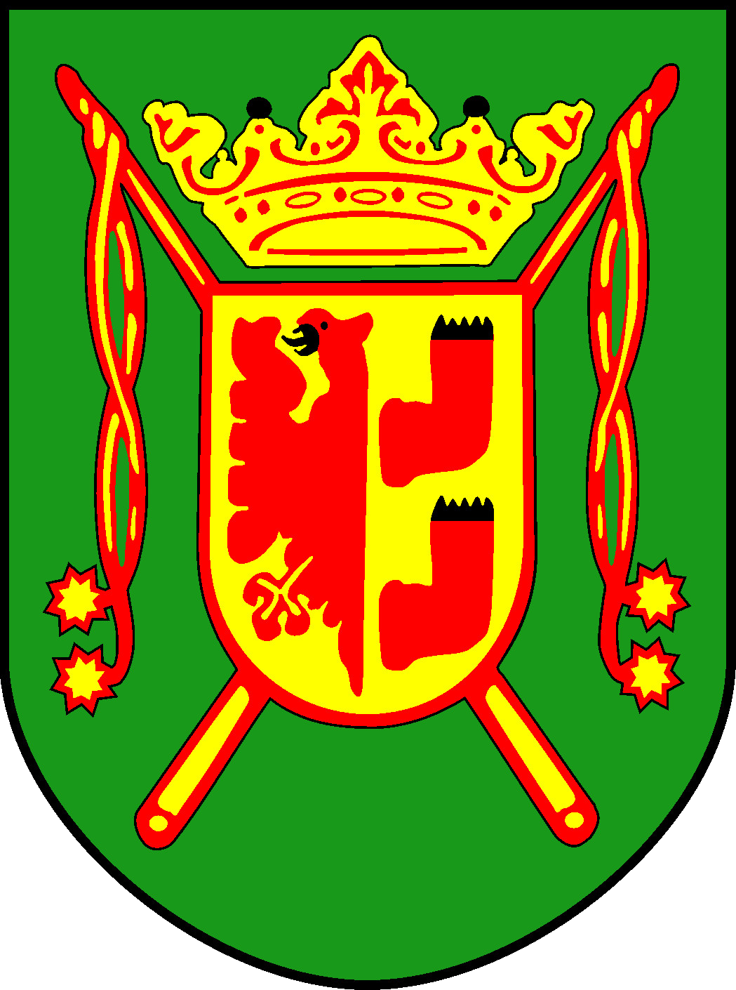 Coat of Arms of Wittmund